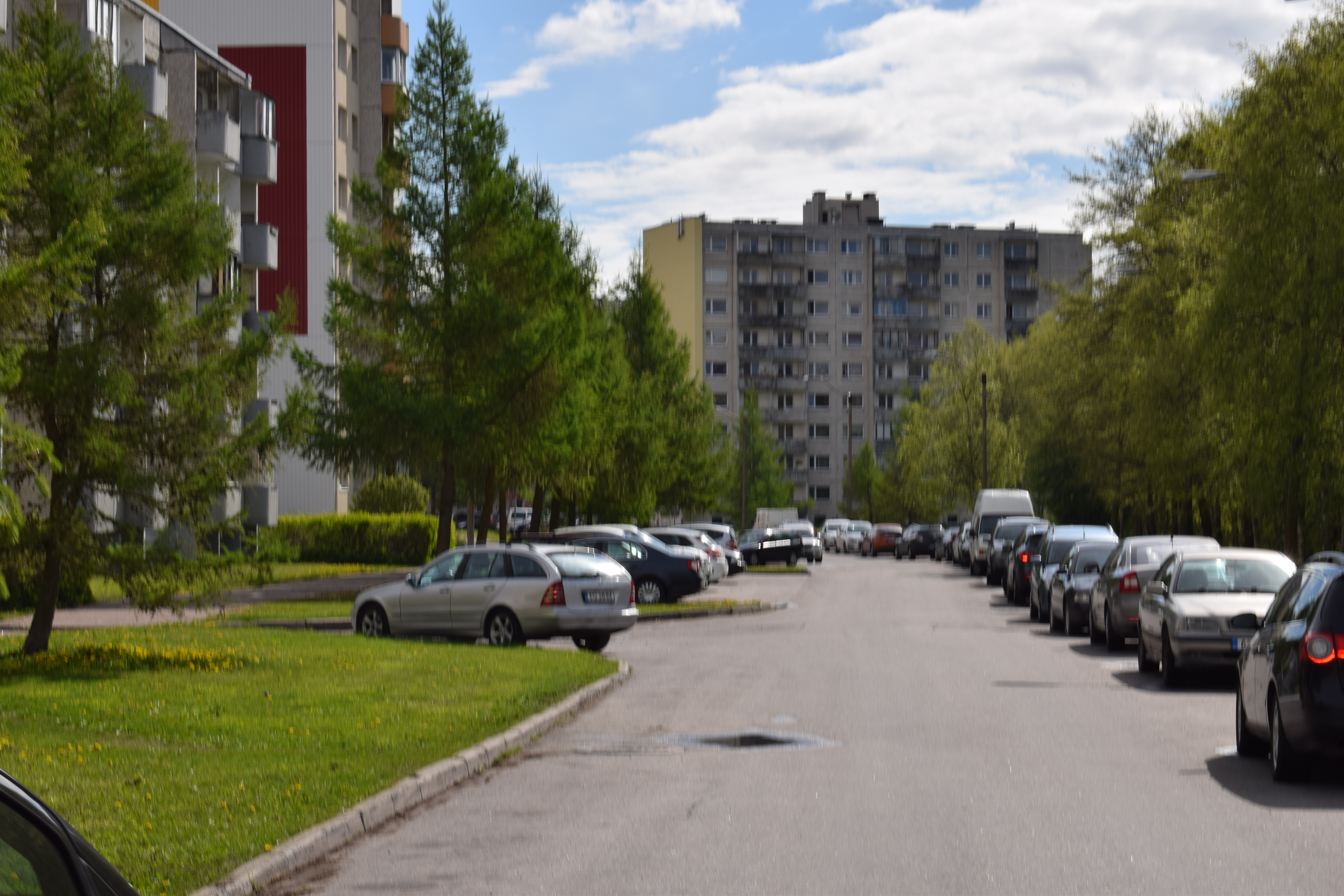 Katleri street